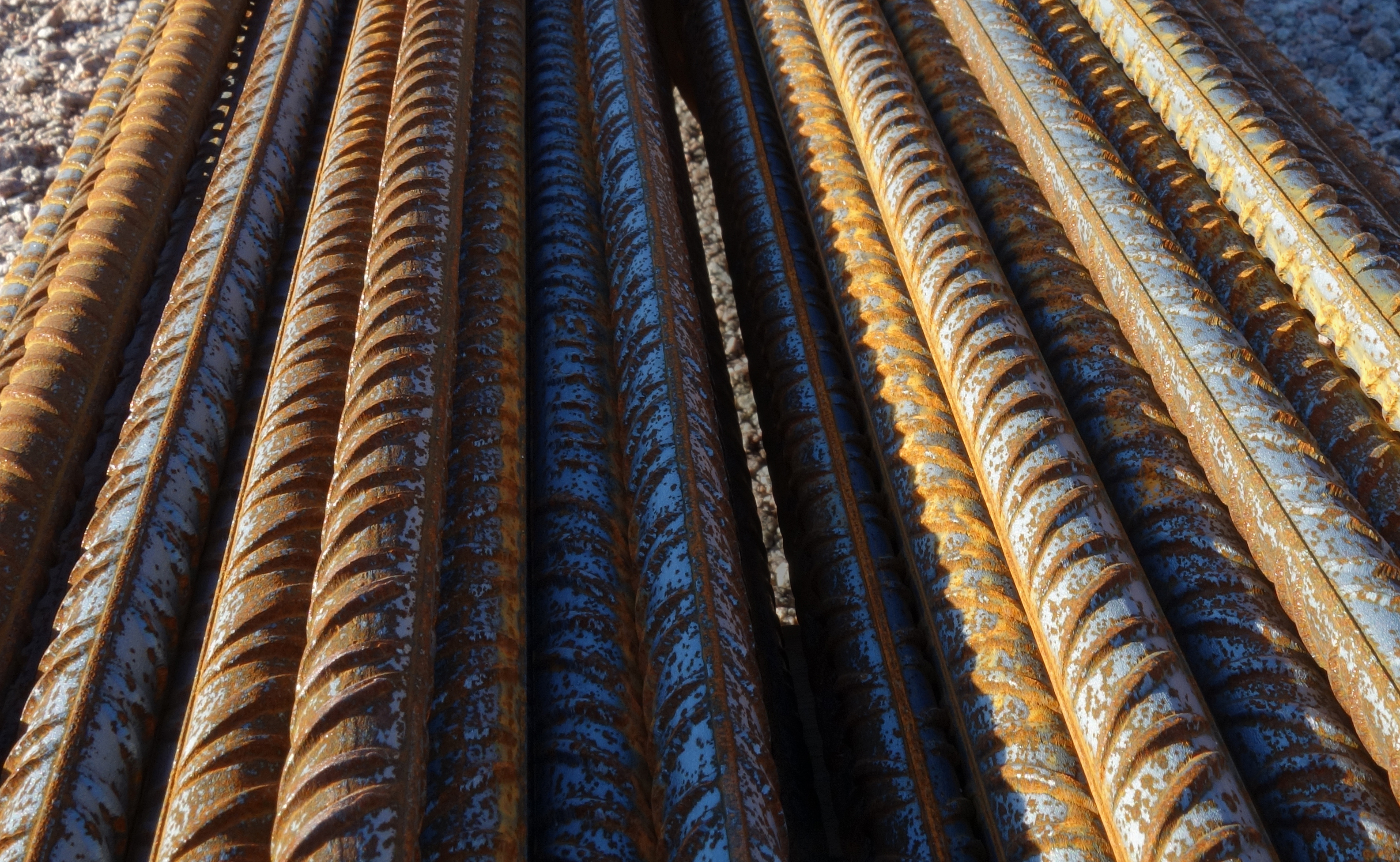 Closeup of straight rebar at a construction site in Rixö old quarry, Lysekil, Sweden.